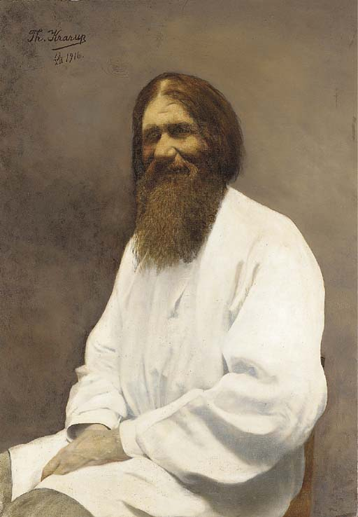 Portrait of Rasputin (1869-1916)